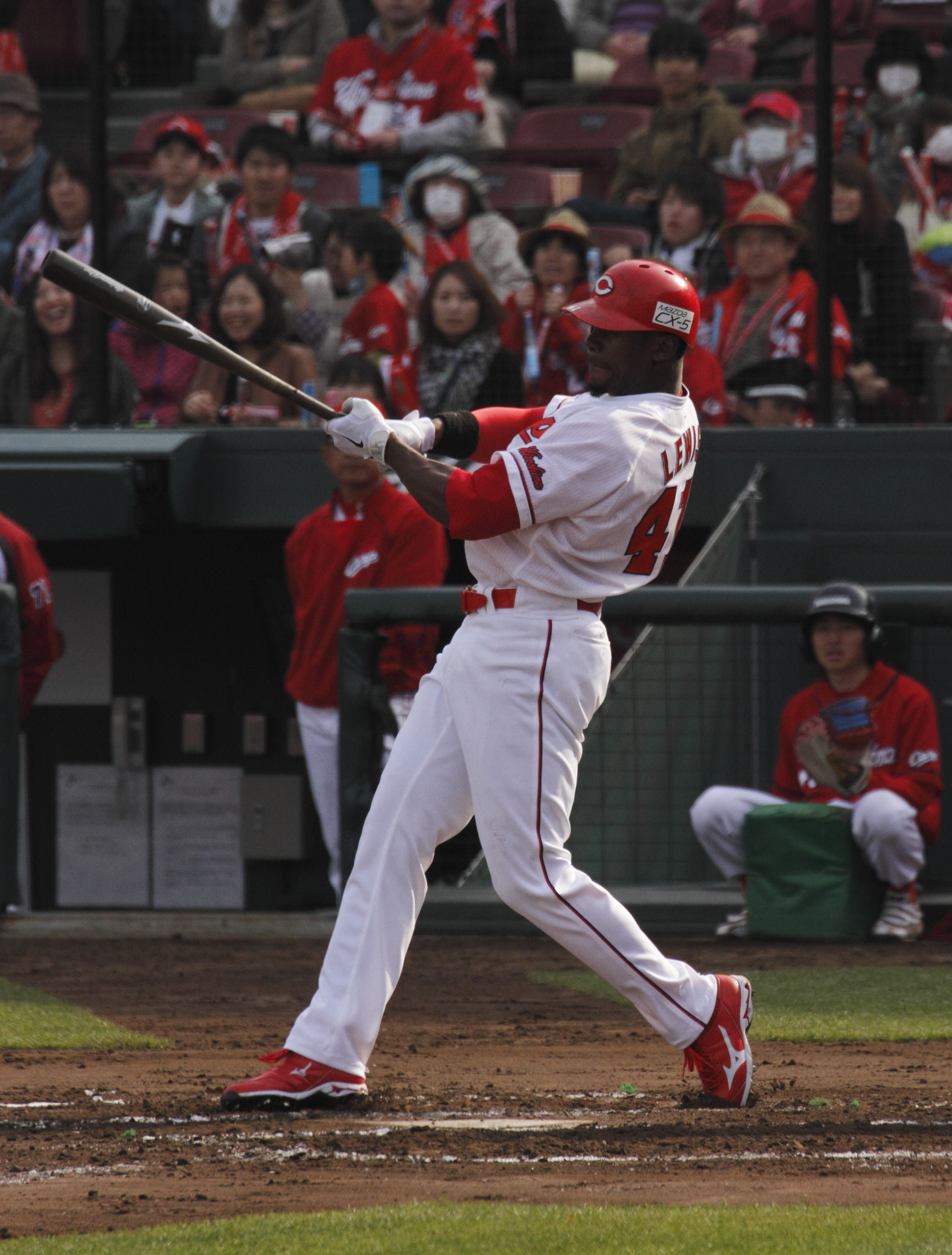 Fred Lewis, outfielder of the Hiroshima Toyo Carp, at MAZDA Zoom-Zoom Stadium Hiroshima.